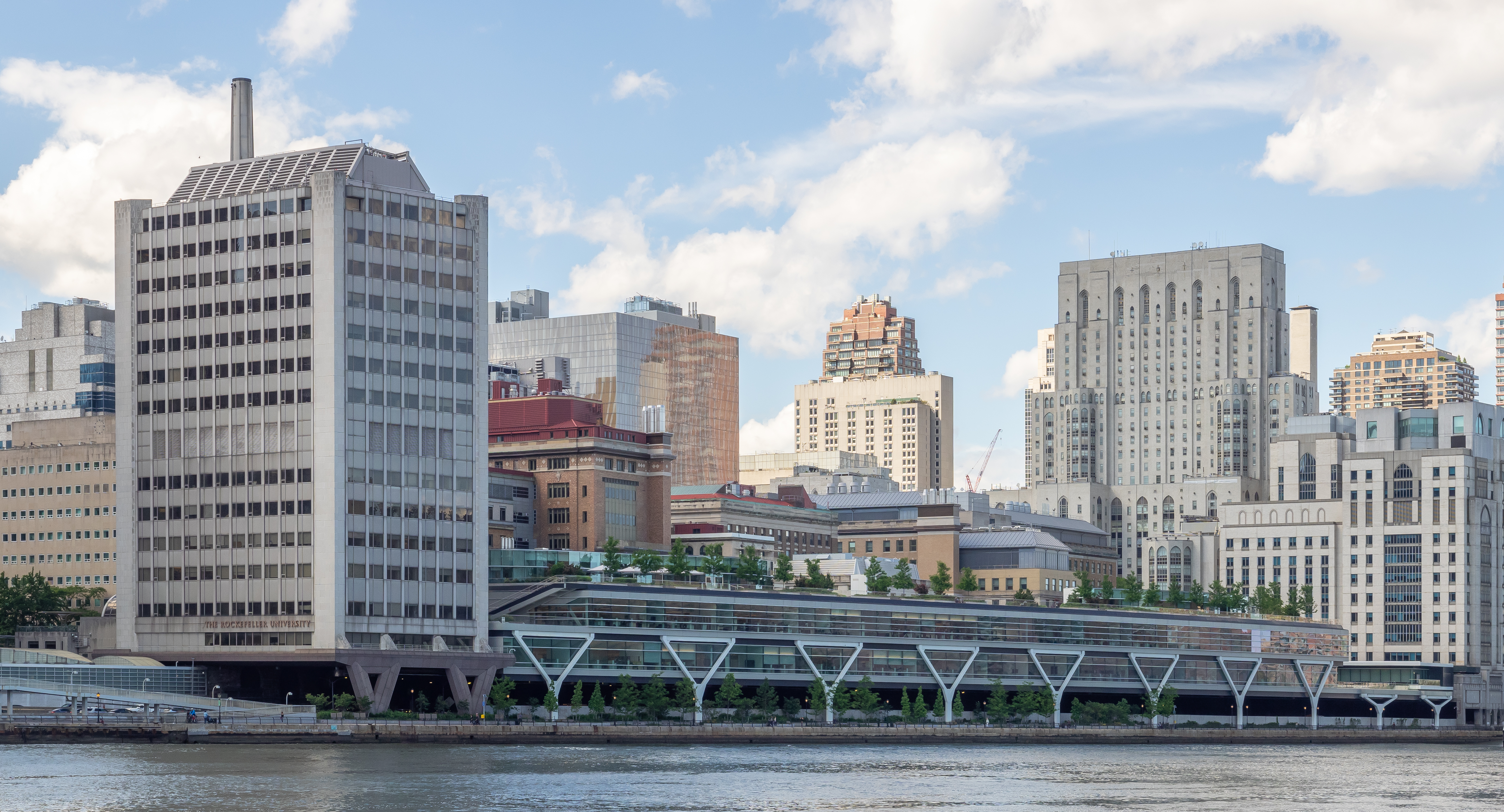 Upper East Side, NYC (shot from Roosevelt Island)